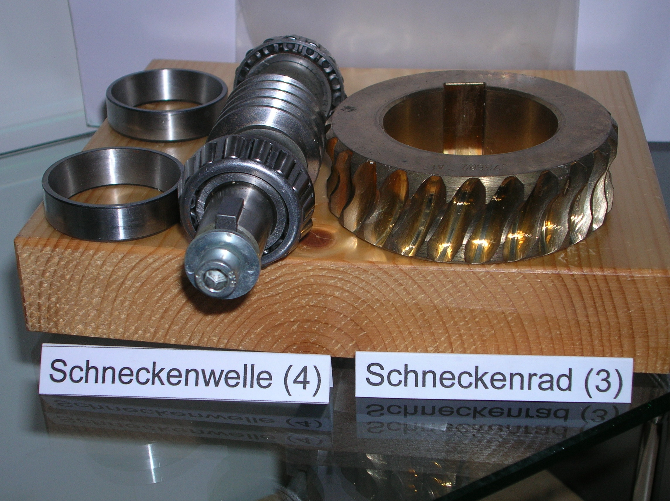 Worm shaft and worm wheel of a worm gear